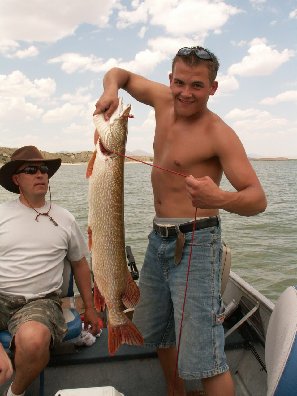 Kip is thrilled with his catch of this monster northern pike, which was one inch shy of the Utah 43" record for Yuba Reservoir